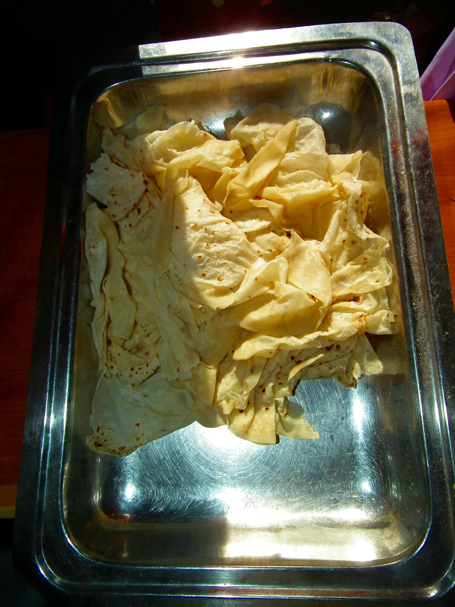 Rumali roti made in Kerala and served in family function